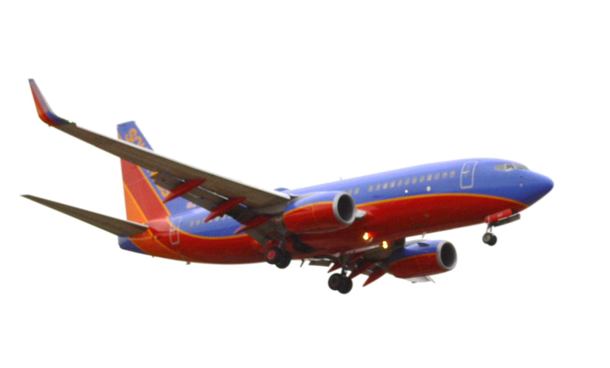 Southwest Airlines flight about to land at McCarran International Airport in Paradise, Nevada, U.S.A. As evident in this photo of the airport, I saw more Southwest flights at this airport than any other company's. I can't find a model number on the aircraft, but maybe someone else can identify it. This photo was taken on a rainy day; brightness and contrast have been adjusted to bring out colors.